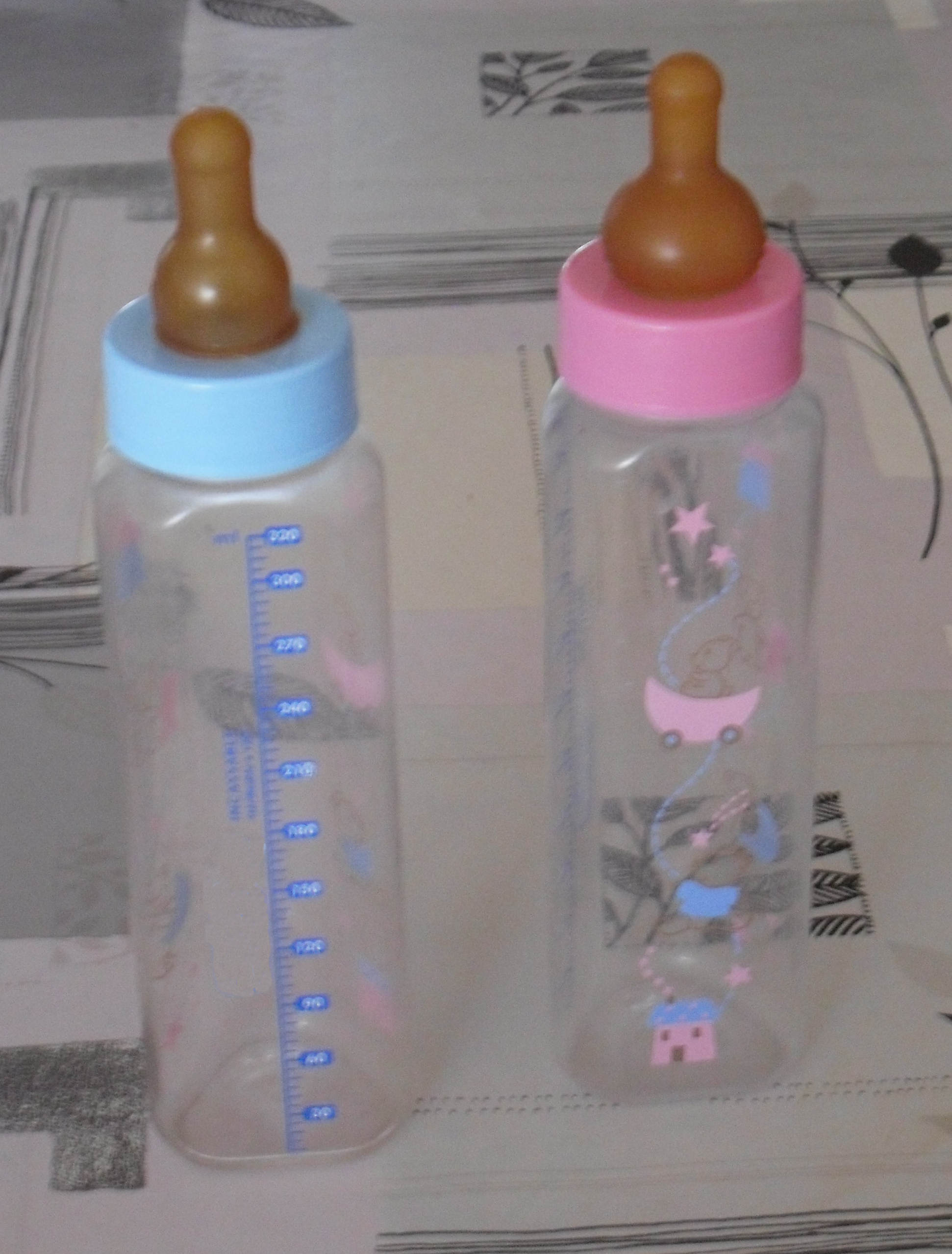 Two baby's bottles